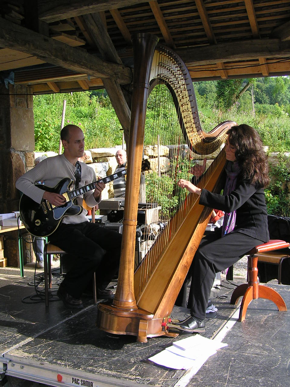 Harp and electric guitar